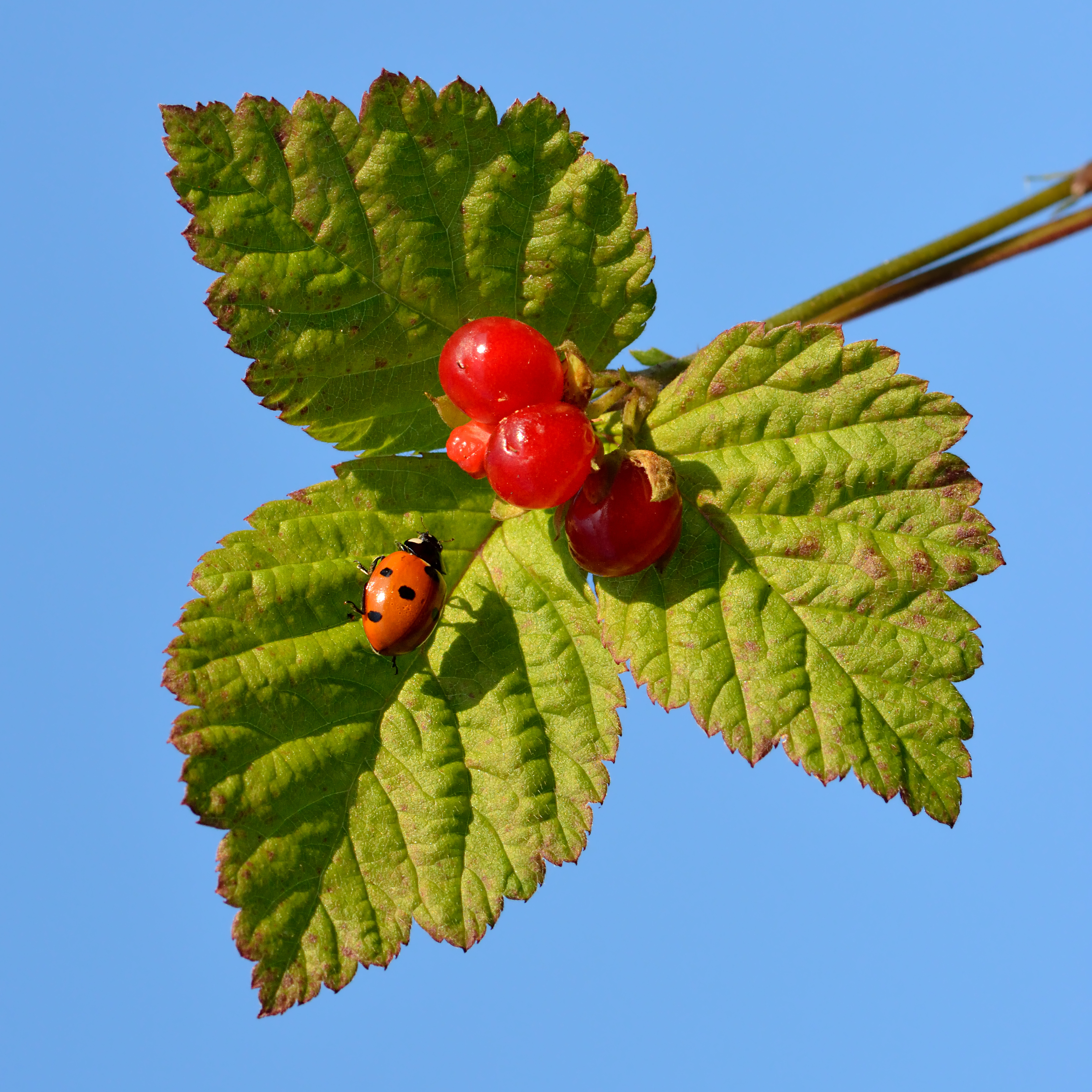 Stone bramble (Rubus saxatilis). Niitvälja bog, Northwestern Estonia.